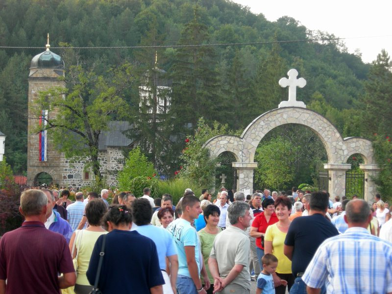 Monastery Ozren - fair.